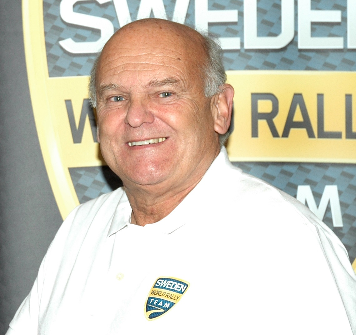 Swedish rally legend and 1984 world champion Stig Blomqvist.